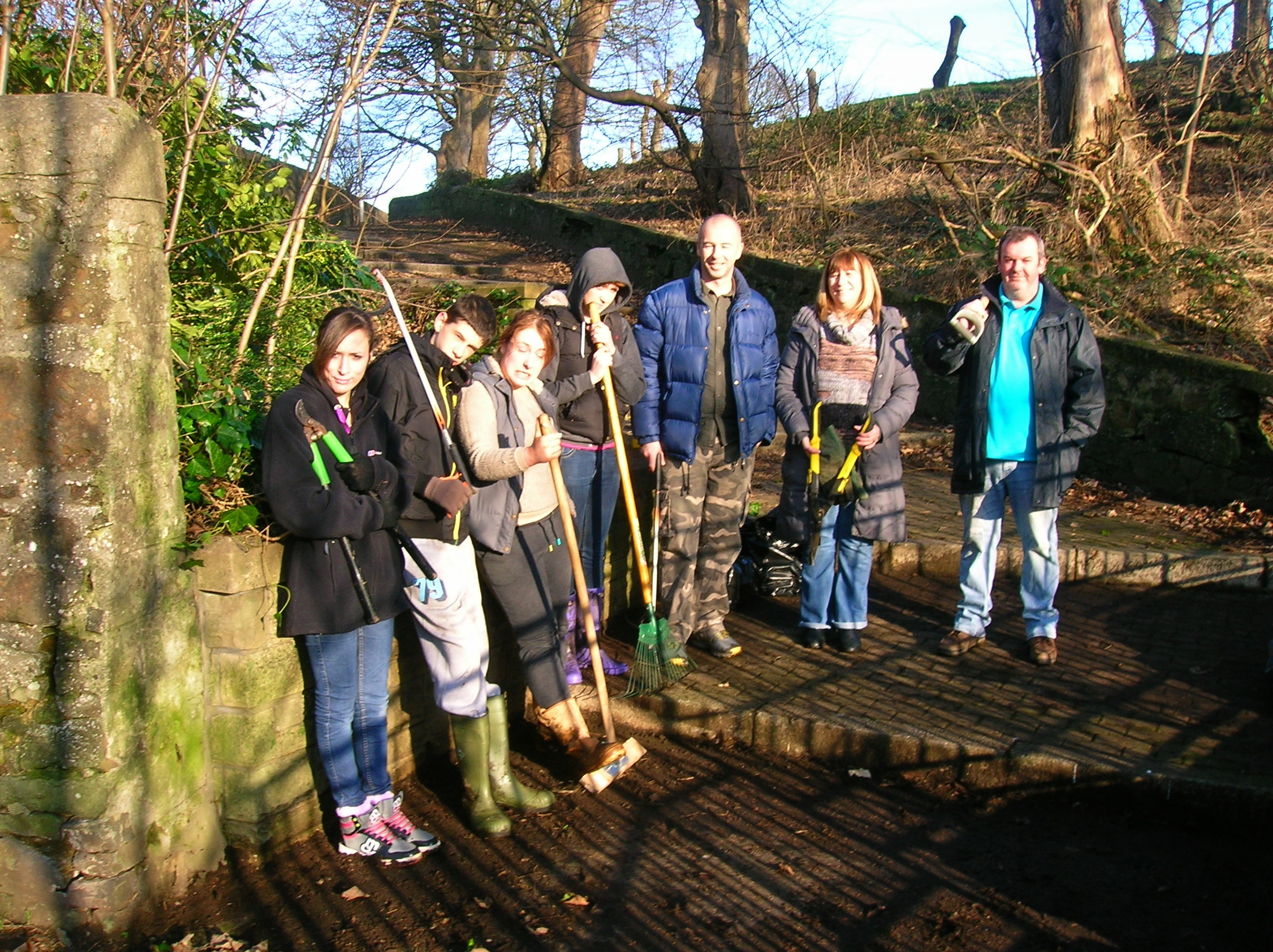 The Redburn Activity Agreement Group renovating the Chapel Well site in 2013, Irvine, North Ayrshire. The wall in the background contains carved crosses and faces